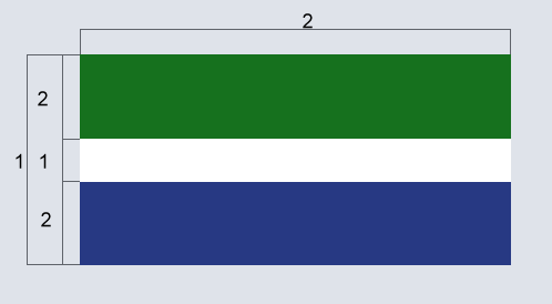 Construction sheet for the Livonian (the Liv) flag